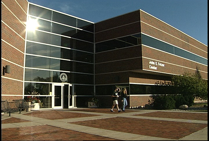 External view of the John E. Fetzer Center on the campus of Western Michigan University in Kalamazoo, Michigan.